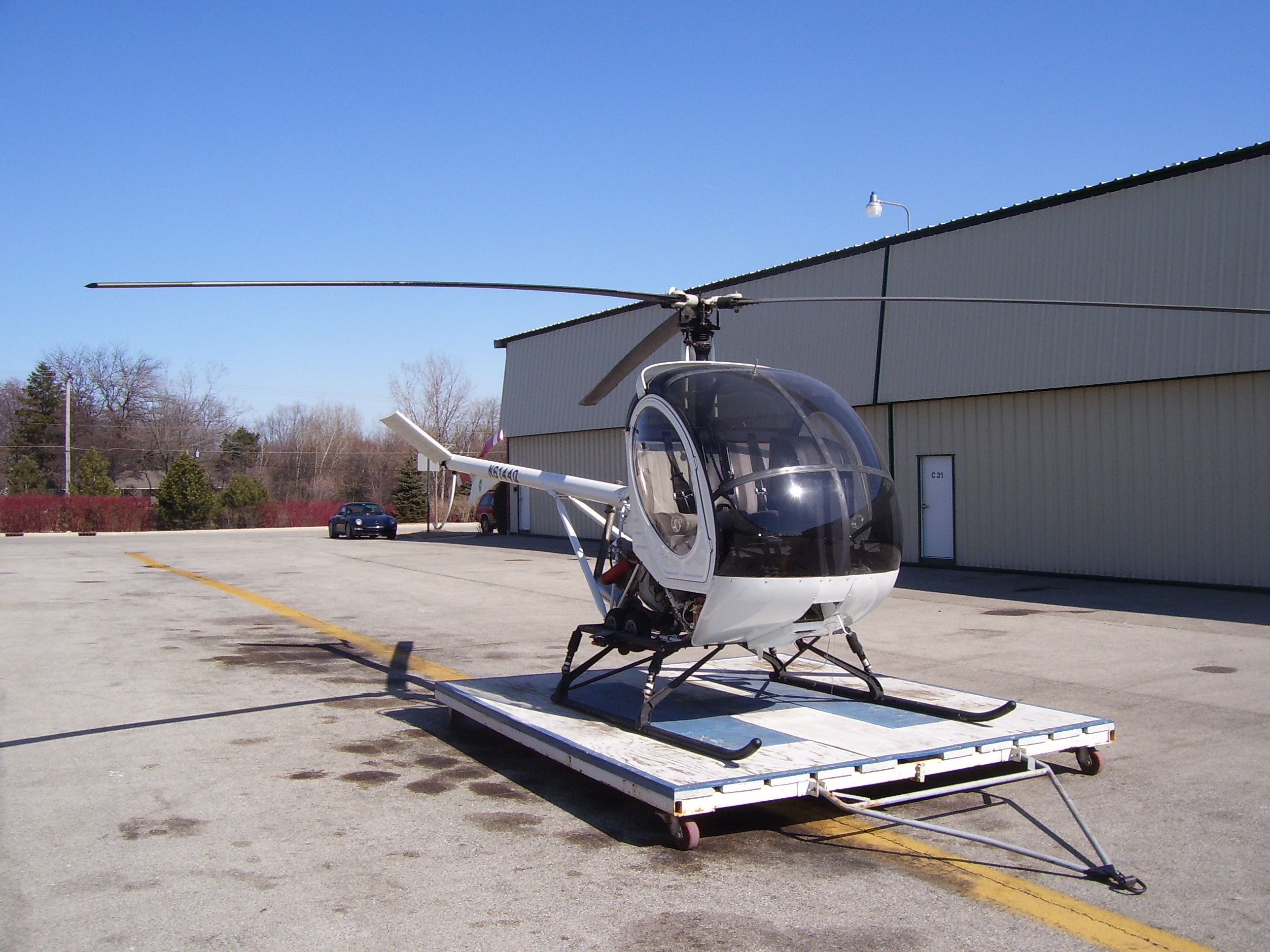 A quarter-view of a Schweizer 300CB helicopter on a special dolly that is used to move the aircraft into and out of its hangar.